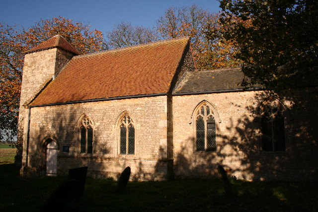 St.Lawrence's church, Snarford, Lincs. An un-assuming exterior hides some spectacular Elizabethan and Jacobean tombs to the St.Pol family in the chancel.